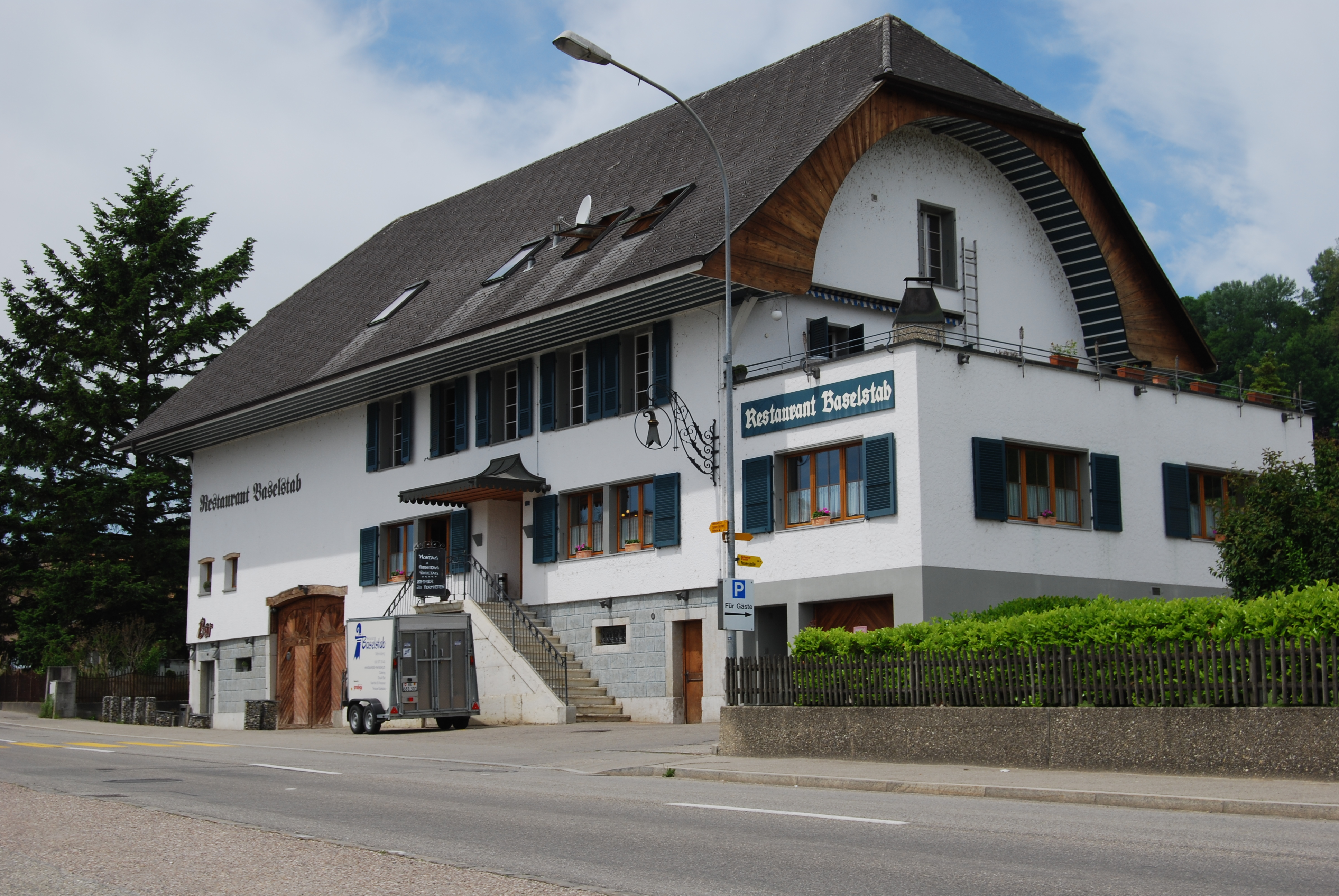 Restaurant Baselstab, Meinisberg, canton of Bern, Switzerland